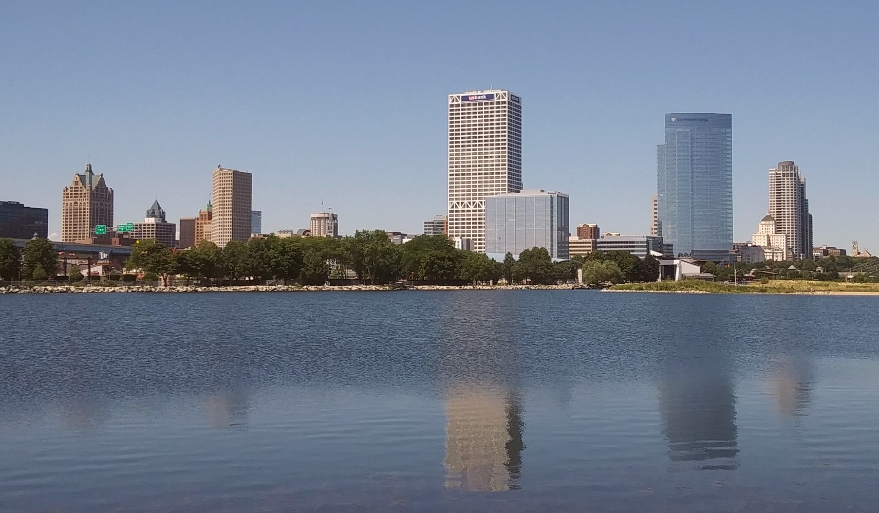 Milwaukee Skyline from Lakeshore State Park